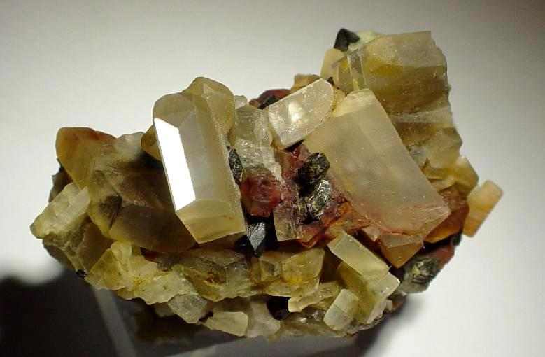 Oligoclase Locality: Pili Mine, Sonora, Mexico (Locality at ) Size: miniature, 4.5 x 3.4 x 3 cm Oligoclase (Moonstone) Very nice cluster of tabular Oligoclase crystals from the famous find of early in the 1990s. The best-formed and most prominent of the crystals displays the beautiful opalescent play of light that these crystals are so famous for. 4.5 x 3.4 x 3 cm